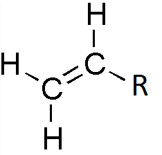 Chemical structure of vinyl